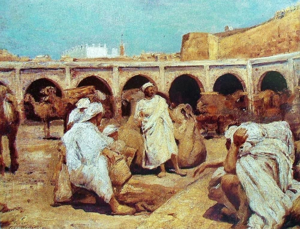 Camel market in Tanger (1897)